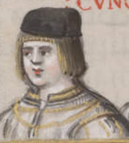 Fadrique of Castile